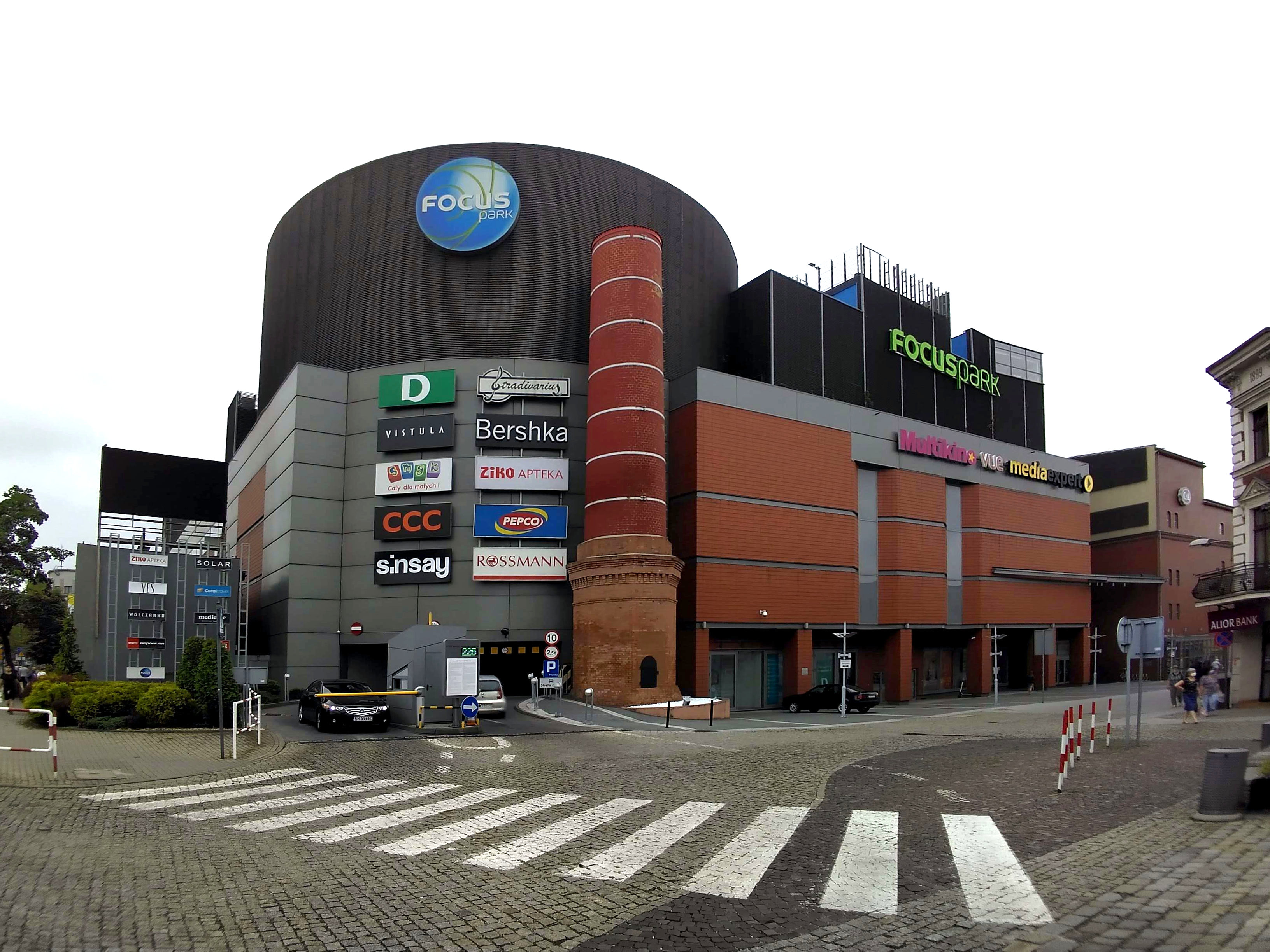 Focus Park shopping mall in Rybnik, Upper Silesia, Poland